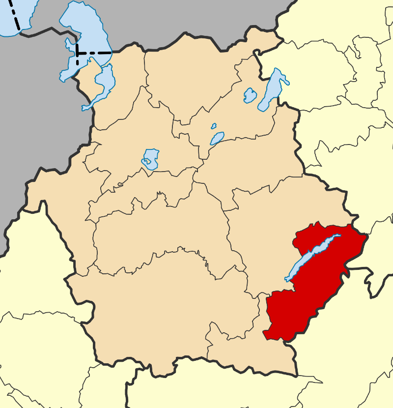 Locator map for Velvendo-Servia municipality in Greek region West Macedonia (2011)